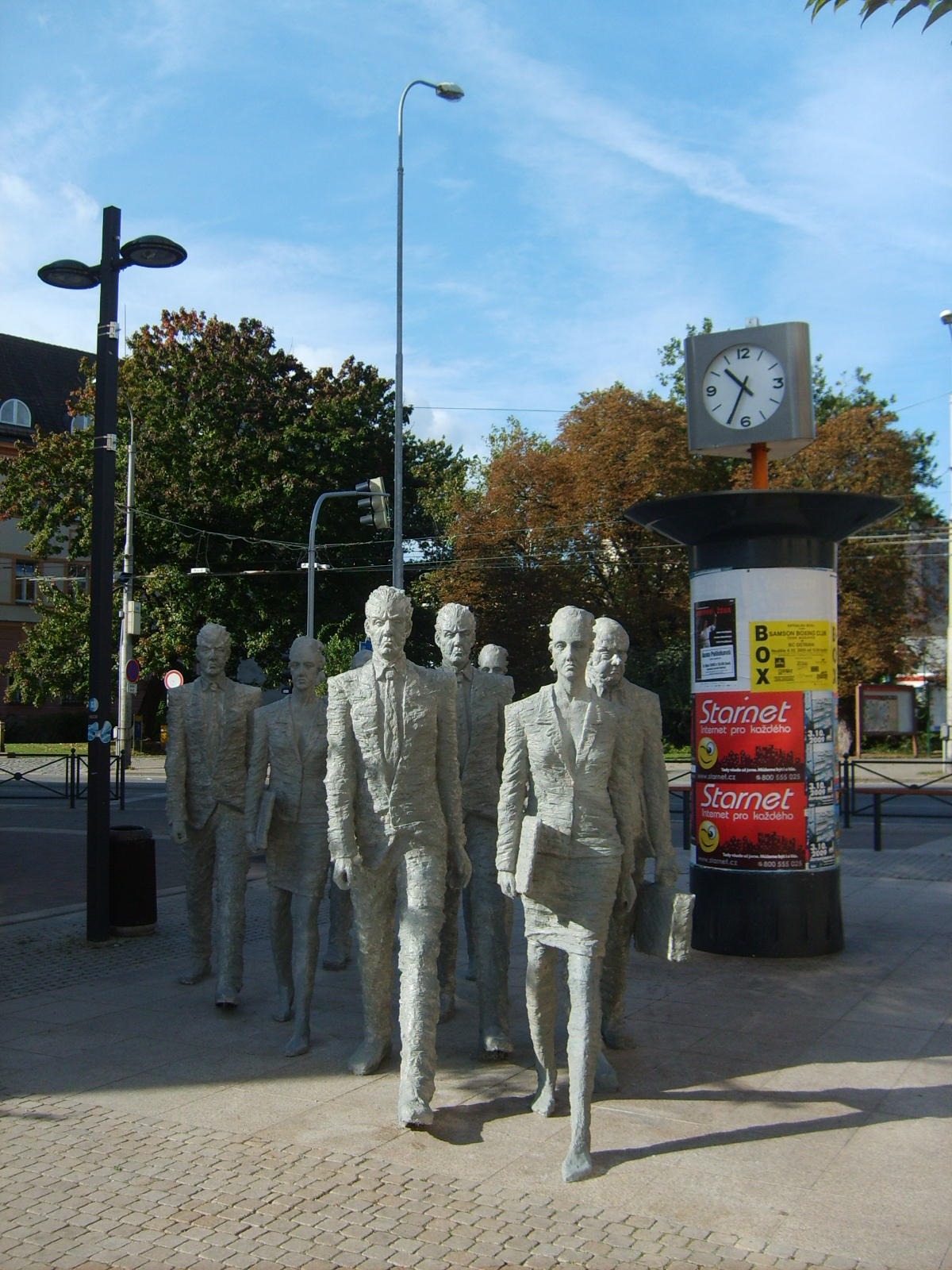 Sculpture of speding managers on Lannova avenue in České Budějovice - "Humanoids" by Michal Trpák.